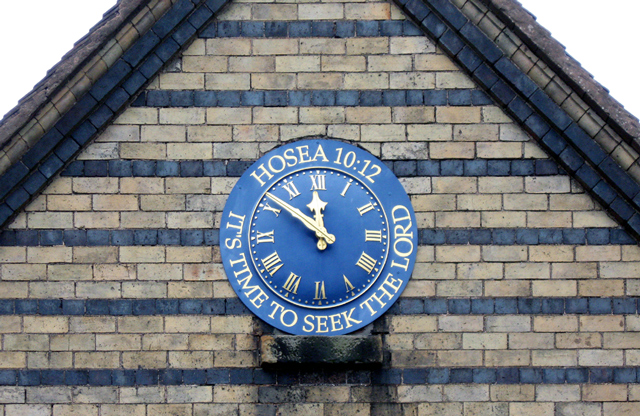 Chapel Clock. This attractive clock is on the outside wall of the Primitive Methodist's Chapel at The Rock.482182